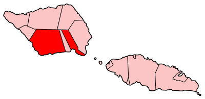 Map of Samoa showing Palauli district. Made by User:Golbez.